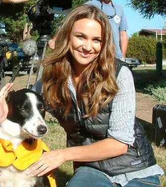 Bisckit and Getaway presenter Natalie